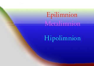 Lake stratification, hipolimnion with "i"